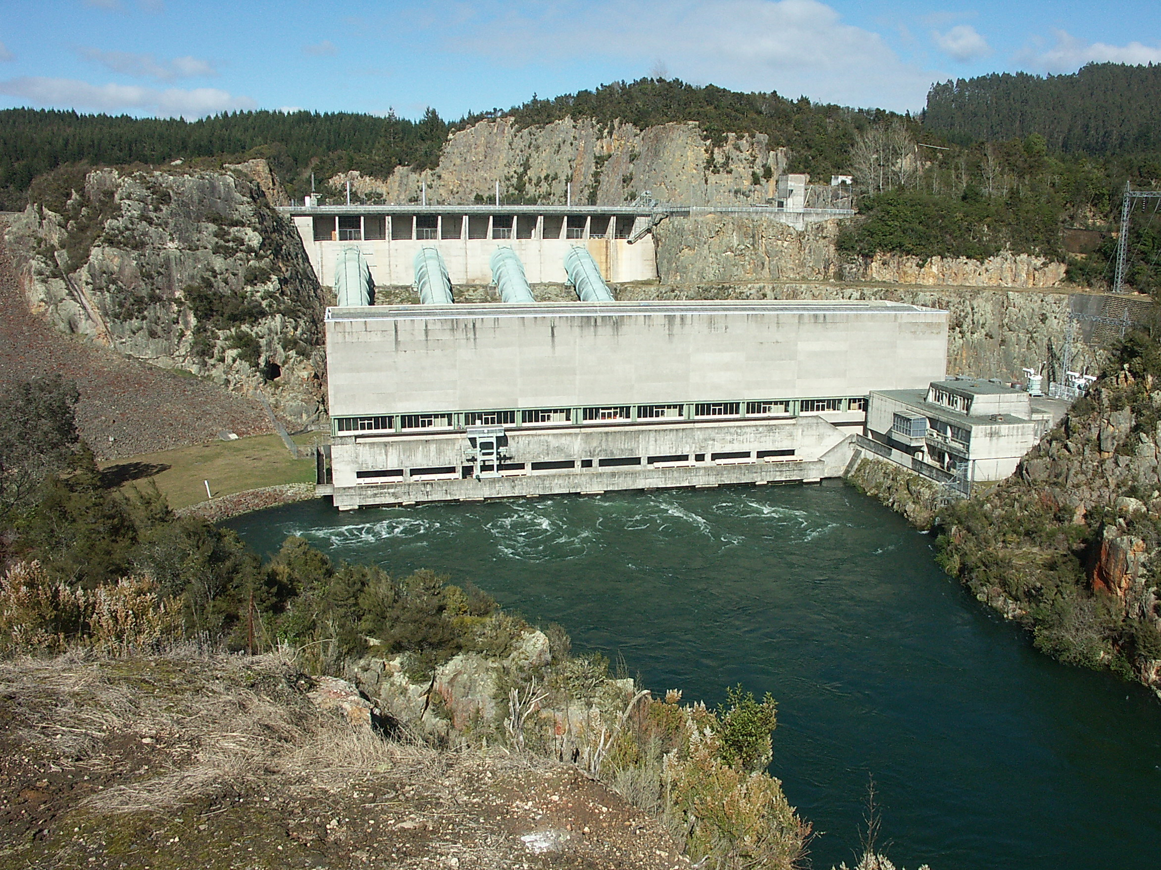 Photo Image of the Ohakuri dam. Taken: 2004-08-26. Photographer: User:Seriocomic.